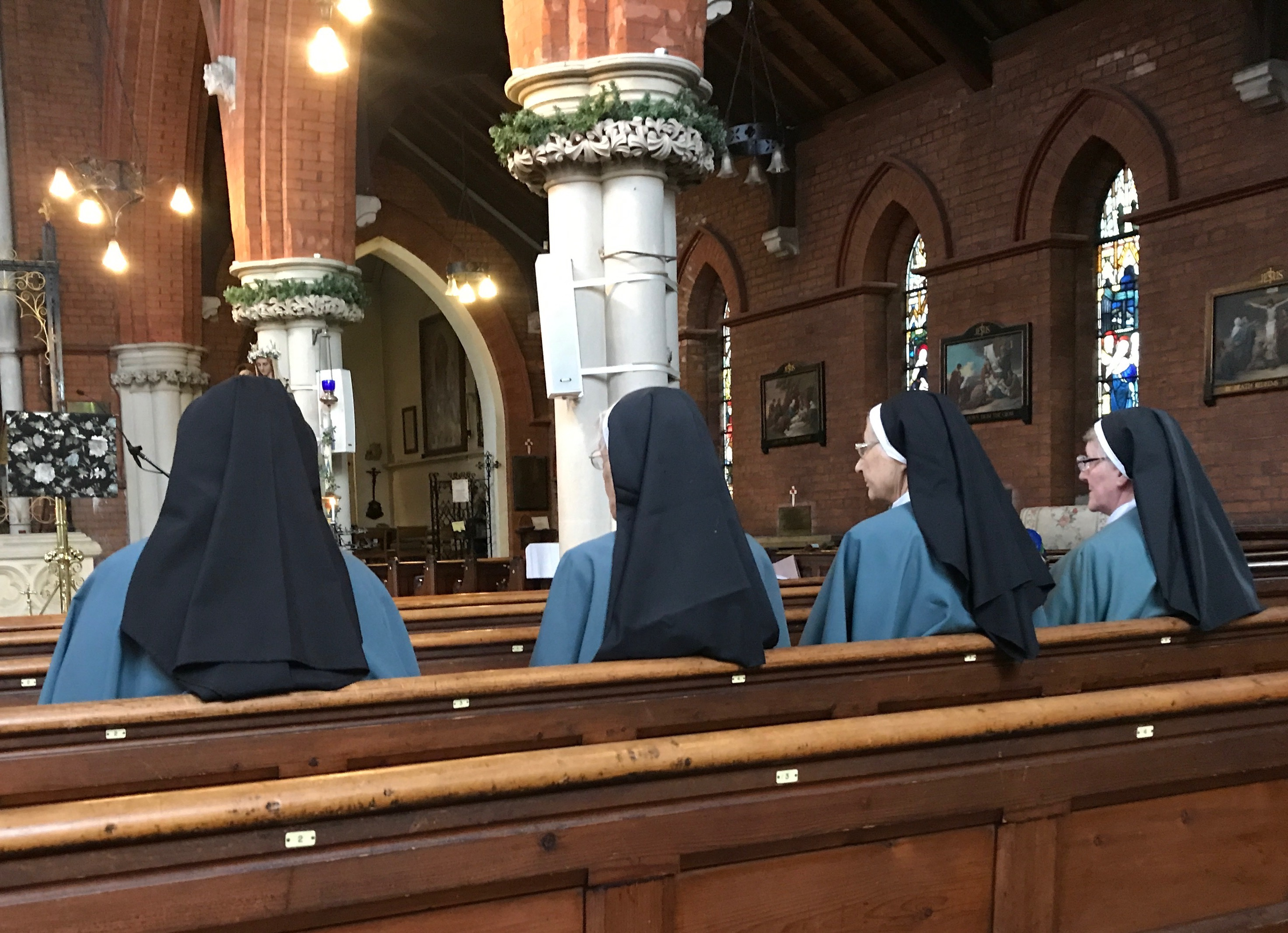 Four Anglican nuns from the Community of the Sisters of the Church (United Kingdom Province).